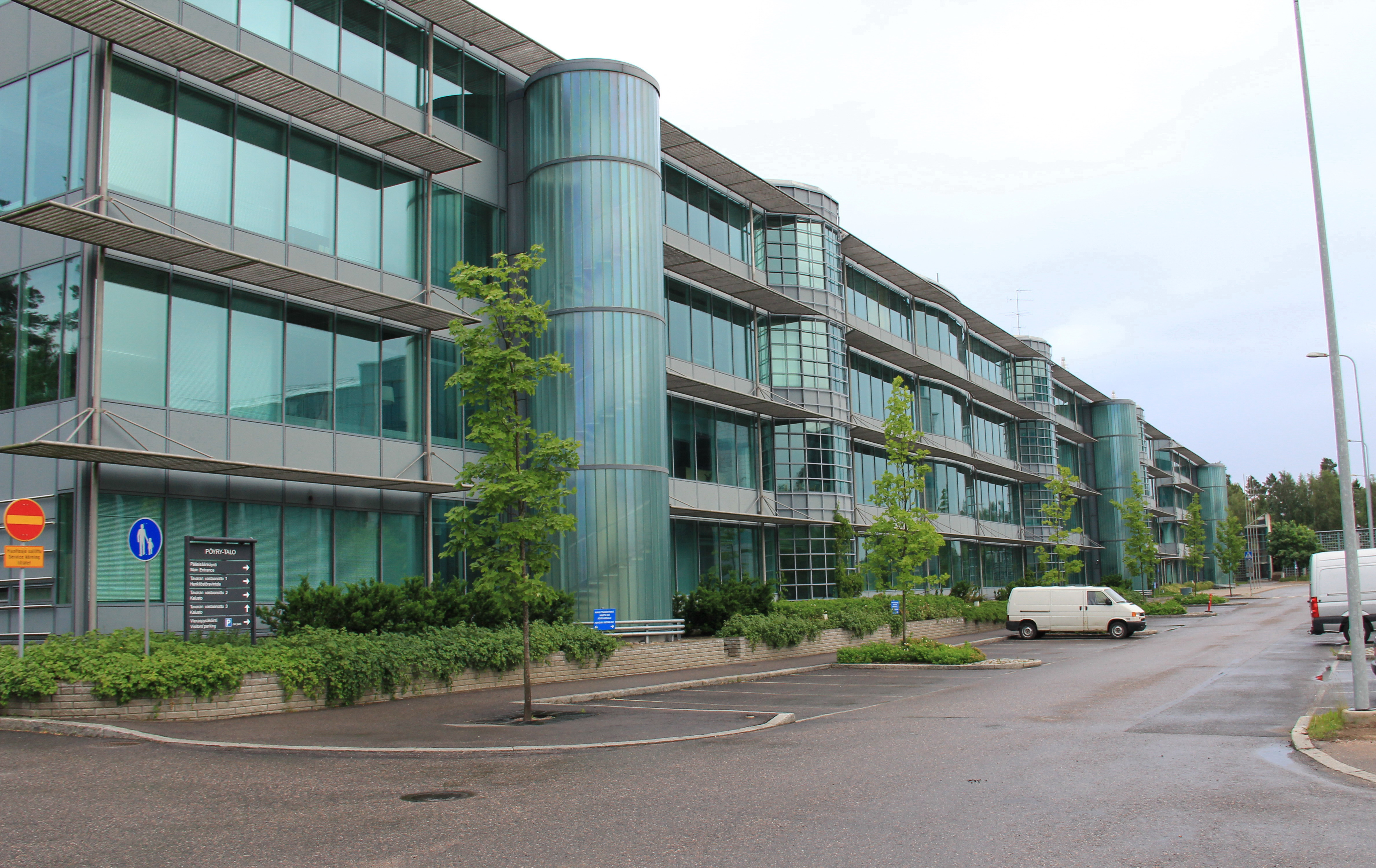 Pöyry (Company) Heaquarters, Martinlaakso, Vantaa, Finland. Architect Risto Marila at Arkkitehtitoimisto Jan Söderlund & Co ltd. Completed 1991, extension 1999.